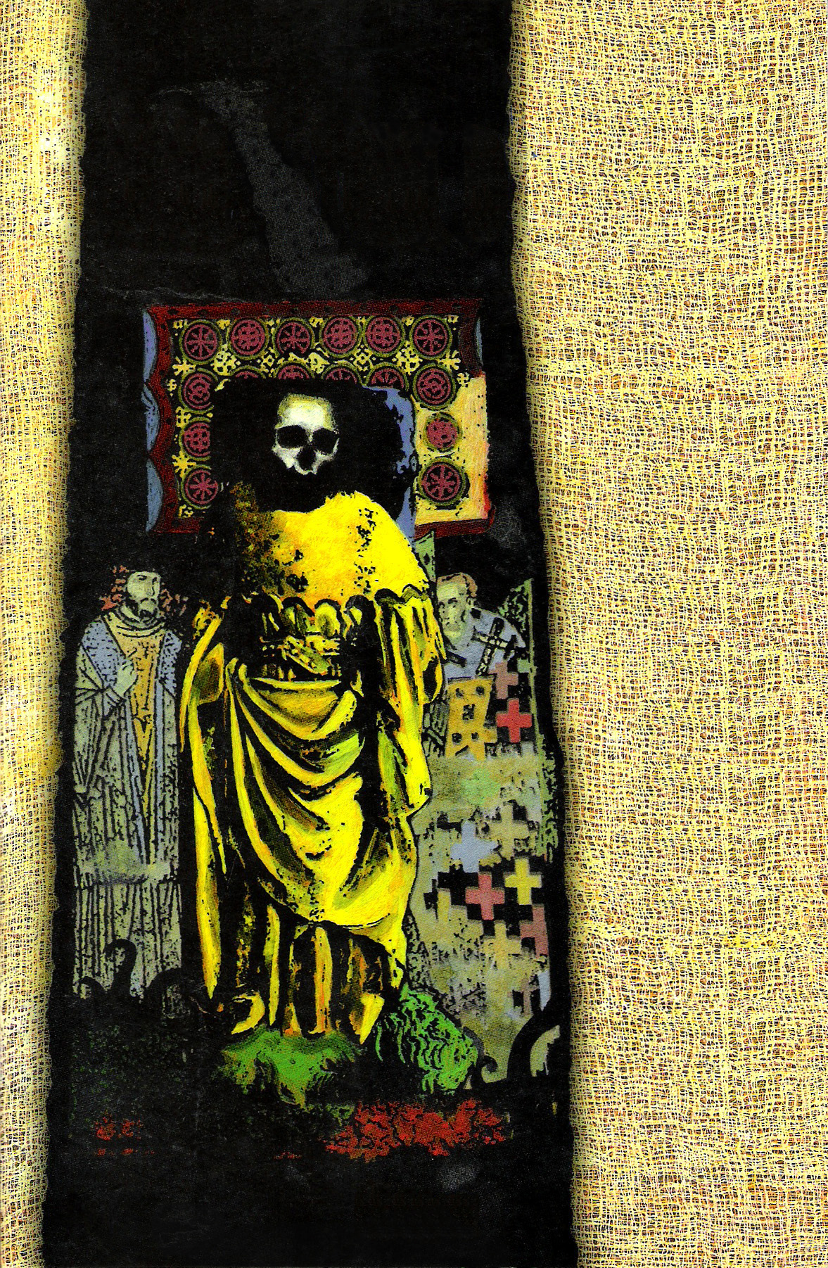 Cover by Sylvain Cordurié ( French edition of Robert M. Price (ed.), "The Hastur Cycle", Oriflam, January 2000, ISBN 2-912979-06-4.